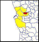 Municipality of Dembos